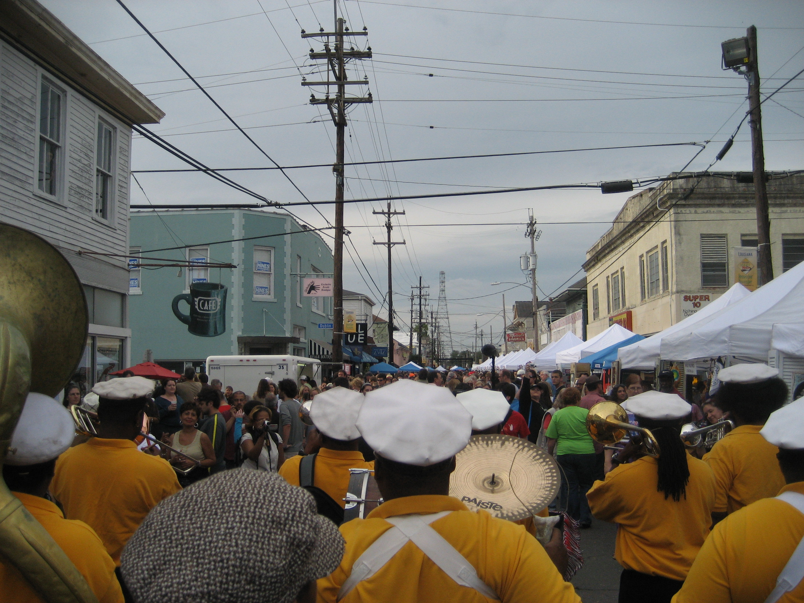 New Orleans: Pin Stripe Brass Band playing for second line parade at "Po-Boy Festival" on Oak Street.